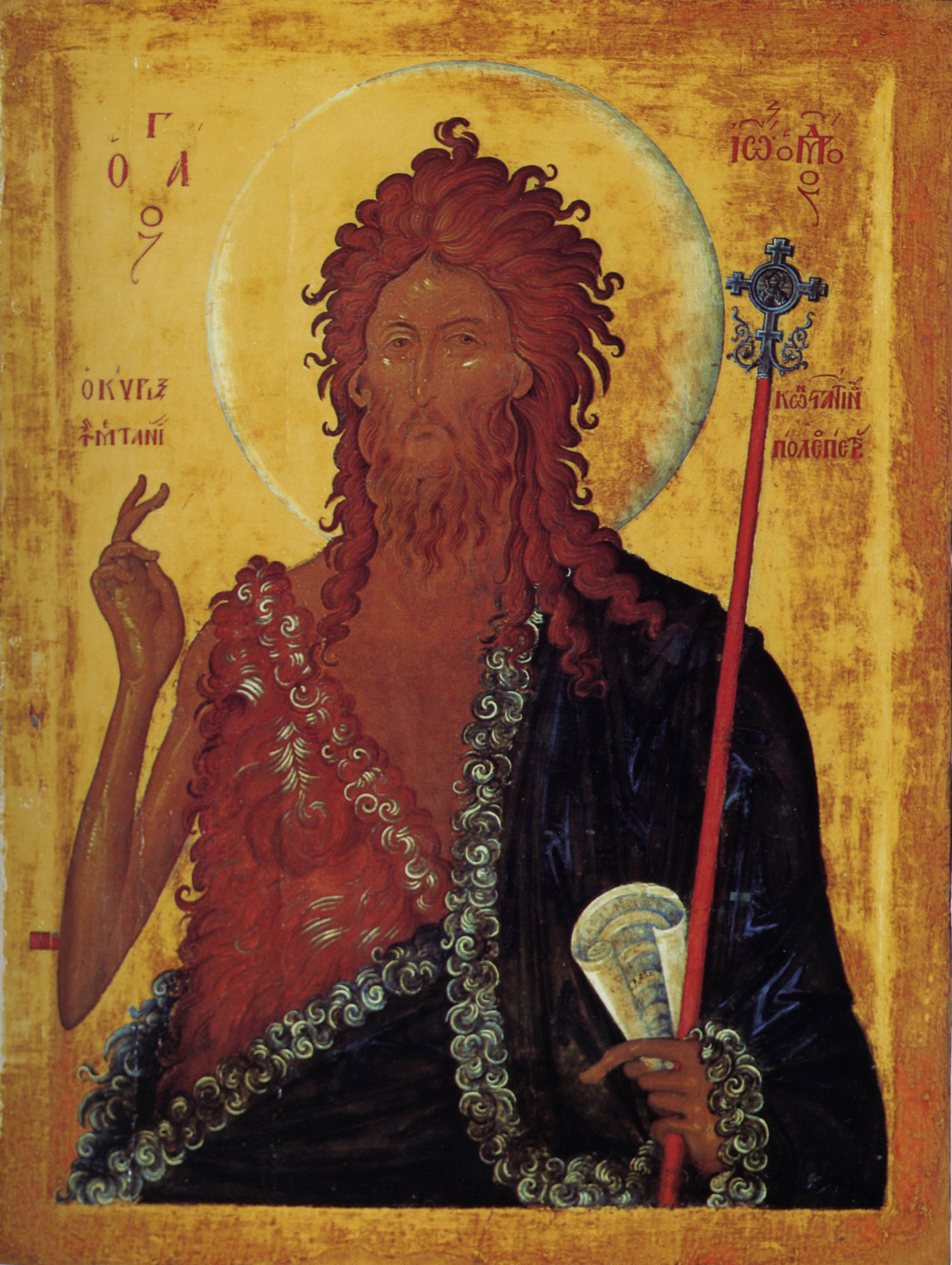 John Baptist. Macedonia